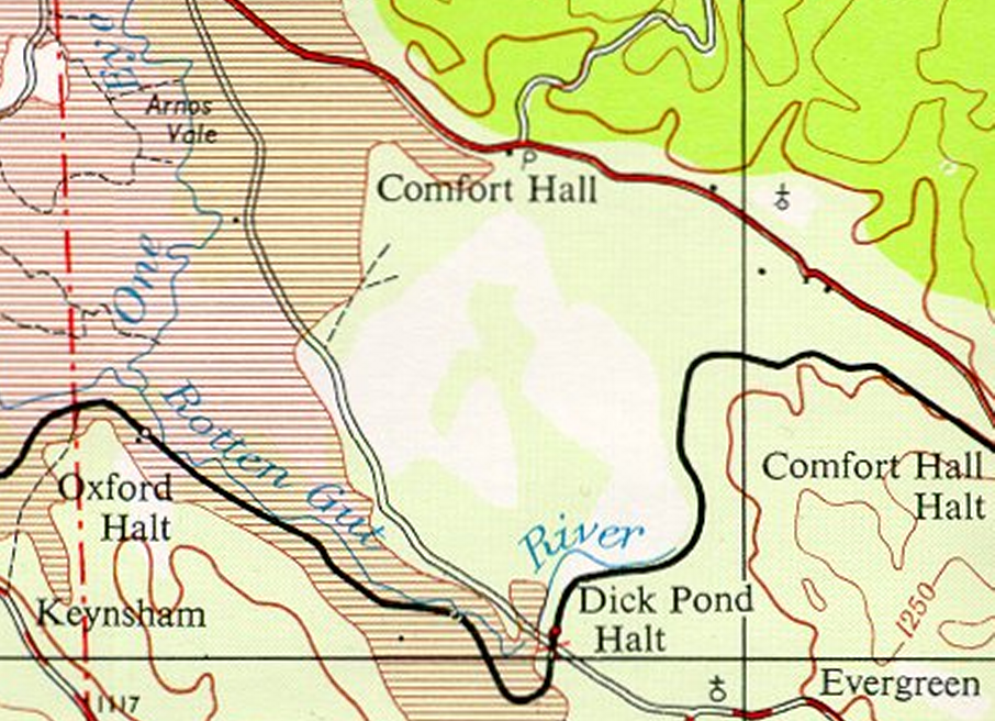 An extract from UK Directorate of Overseas Surveys 1:50,000 map of Jamaica (sheet D, 1st edition, 1959), showing the Rotten Gut River in Manchester, Jamaica.